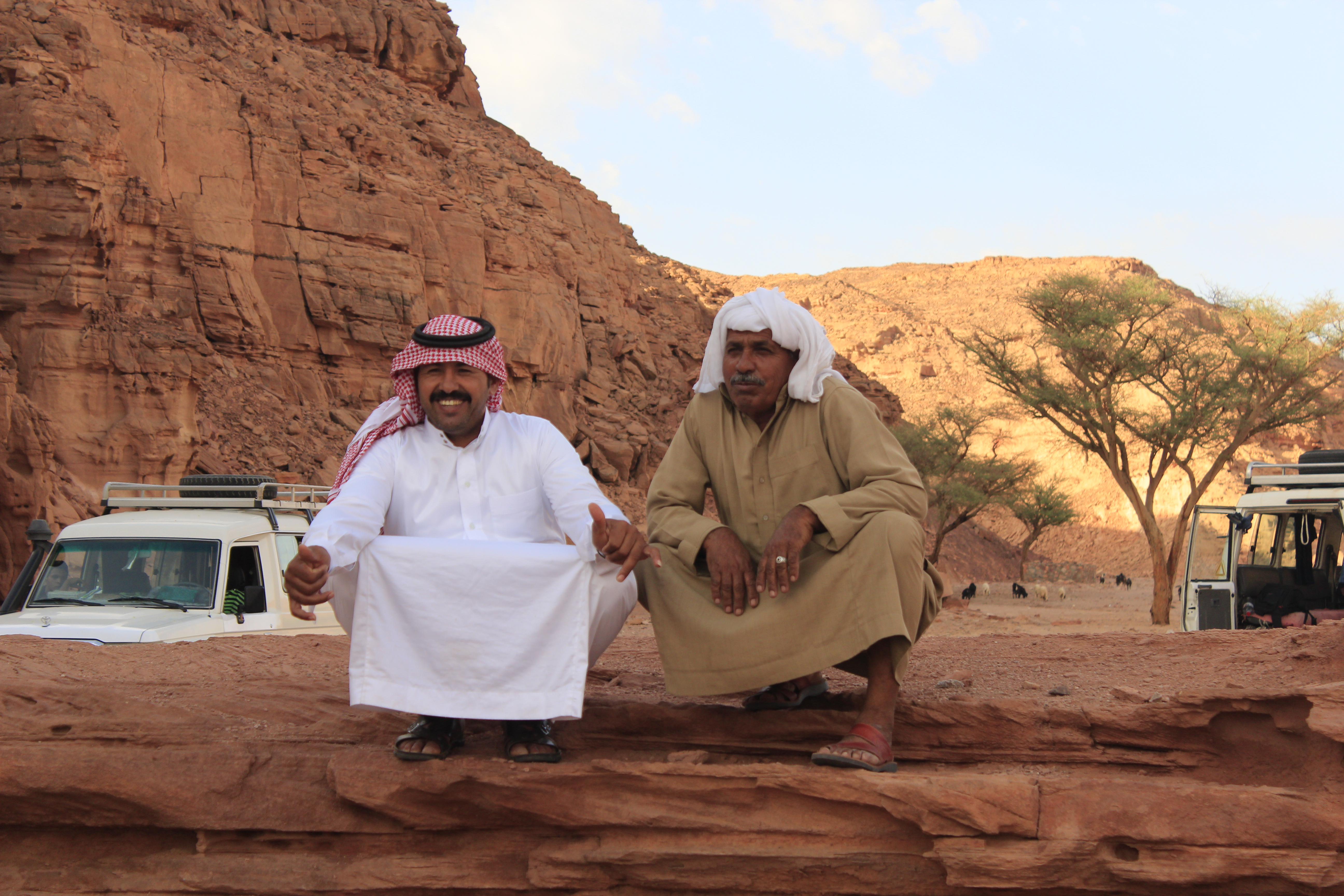 Arabs in Nuweiba55